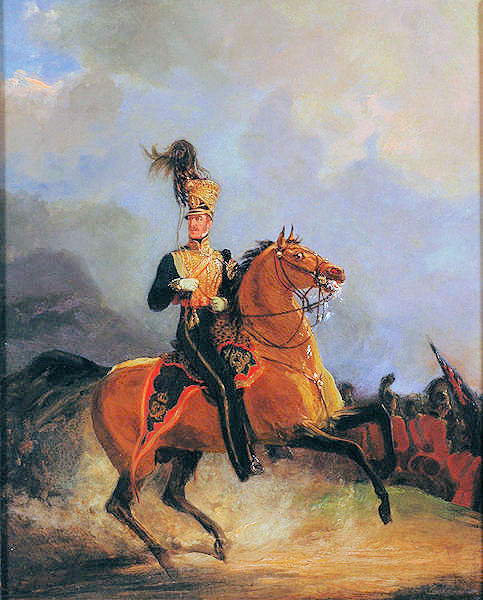 Sir Henry William Paget (1768-1854), 1st Marquess of Anglesey, 2nd Earl of Uxbridge